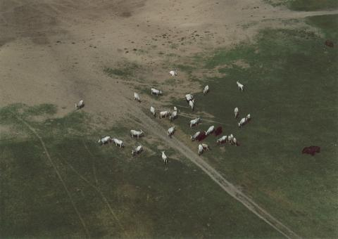 Bugac, Hungary, aerial photography